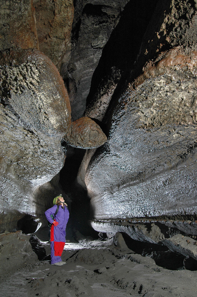 A famous feature far into the cave is the "Meatball". It is a lava ball wedged in a ceiling channel. Lava balls form from smaller rocks which roll along in lava flows, accreting more and more layers over time, like a snowball rolling down a snow bank.